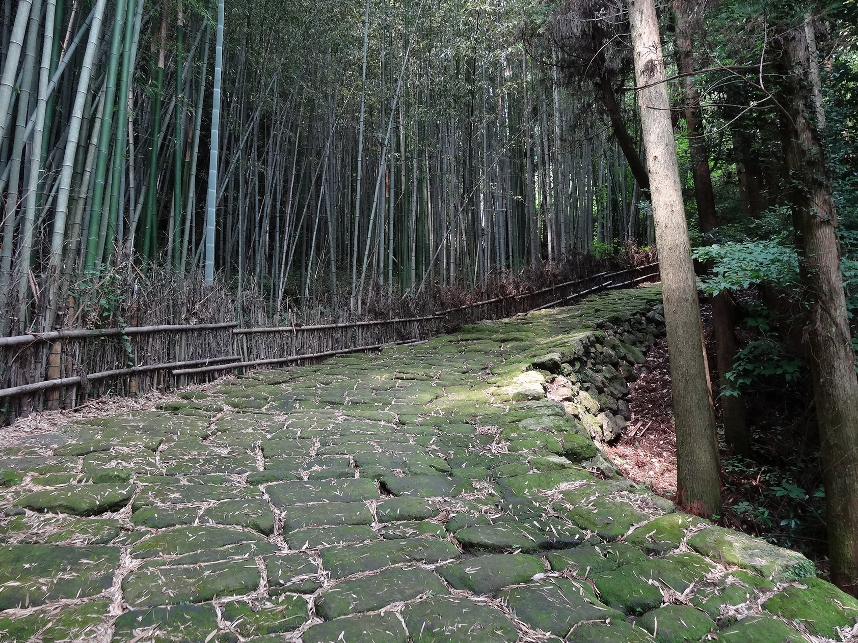 Tatsumonji-zaka Slope of the Okuchi-suji Highway - Edo Period (Kajiki, Aira City, Kagoshima Prefecture, Japan)